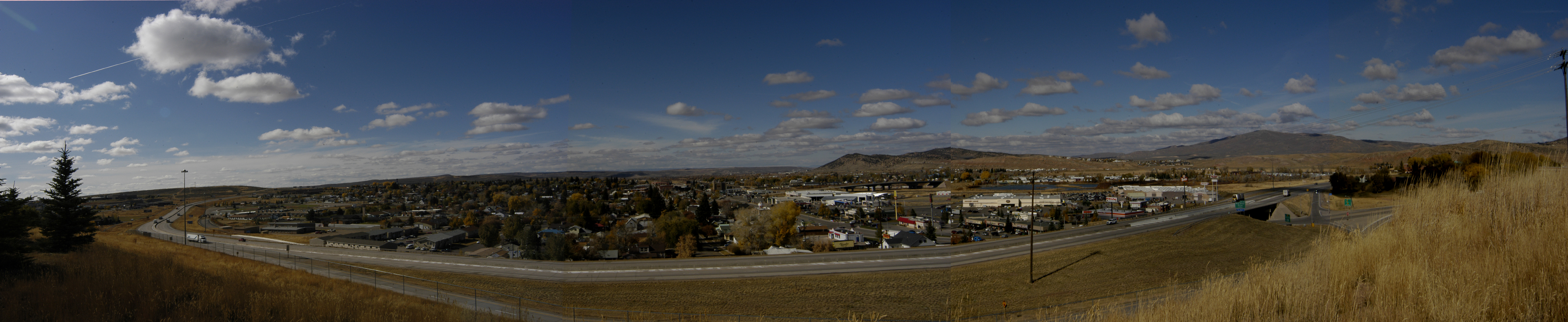 Evanston Wyo looking west over city